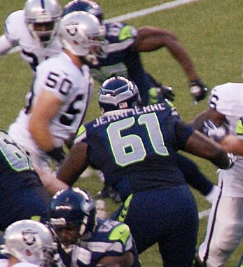 Lemuel Jeanpierre (#61) blocking Travis Goethel (#50).